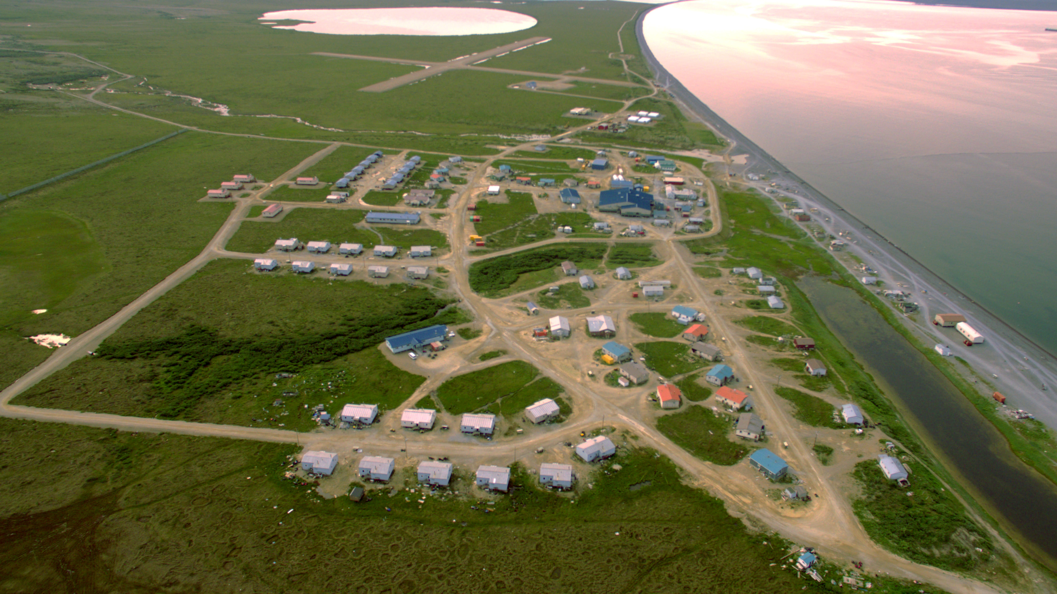 Drone photo of Brevig Mission Alaska taken in Spring 2017.